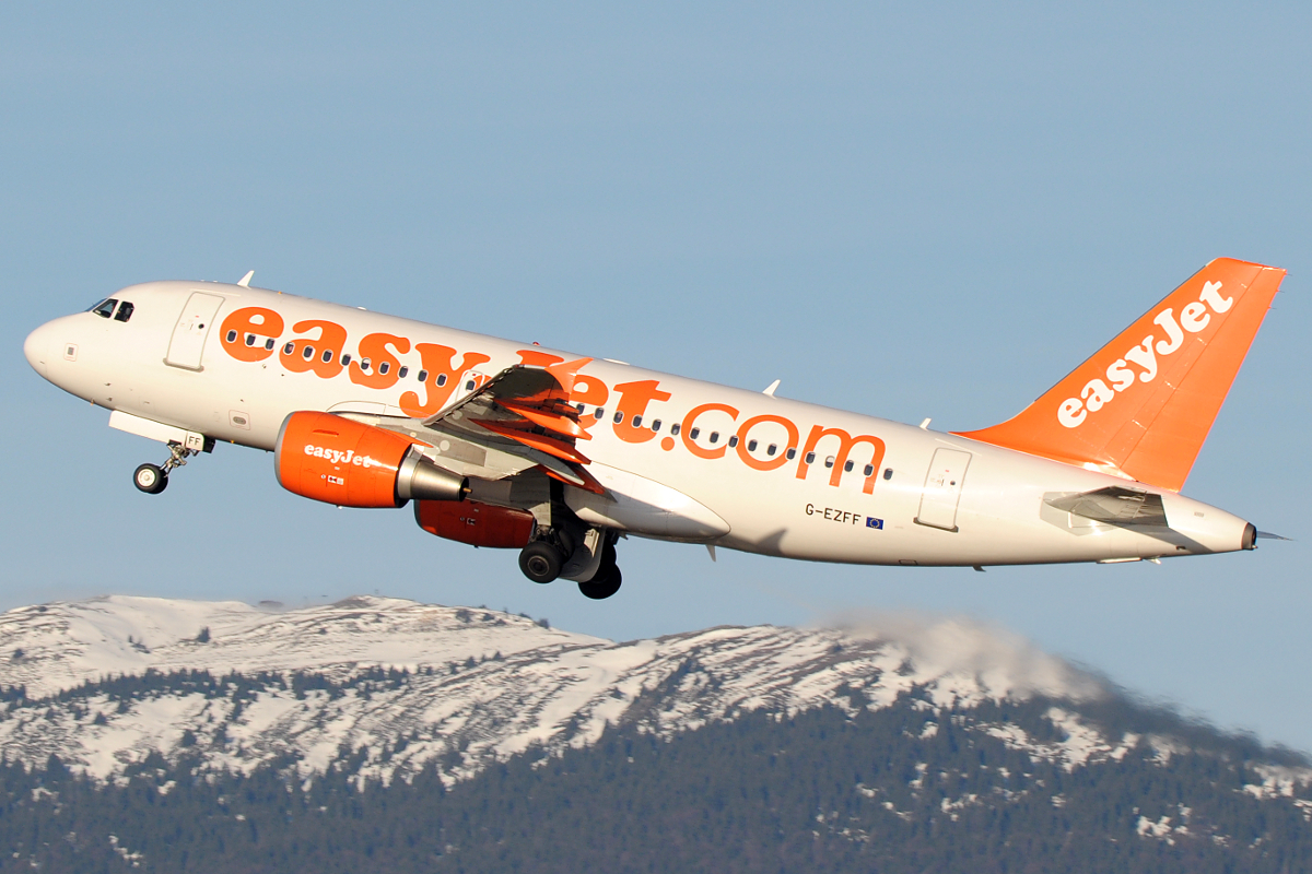 An Easyjet A319 taking off from Geneva International Airport